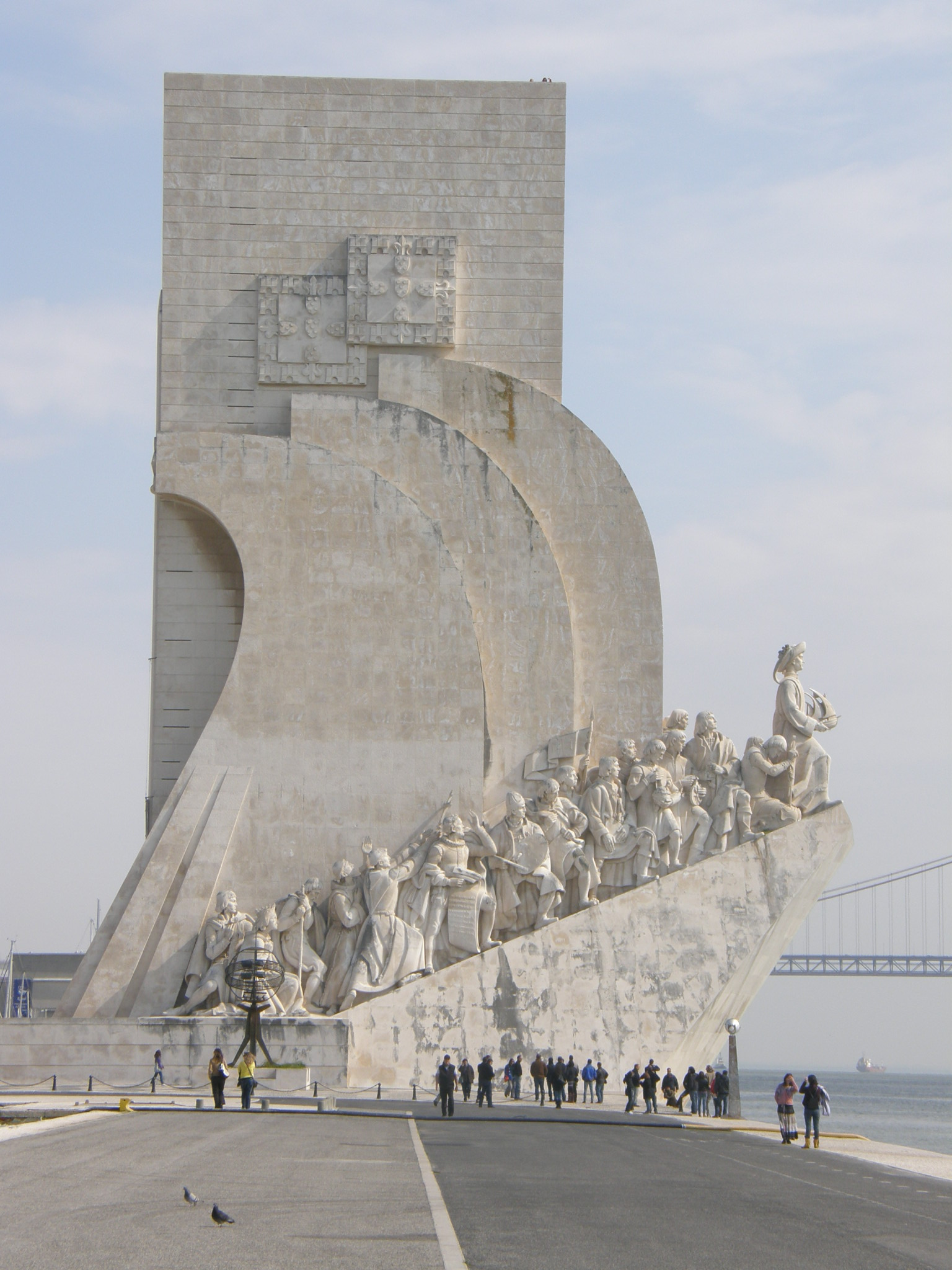 The Monument to the Discoveries in Belém, Lisbon, was built in 1960 to commemorate the 500th anniversary of the death of D. Henry The Navigator. It is 52 meters high.